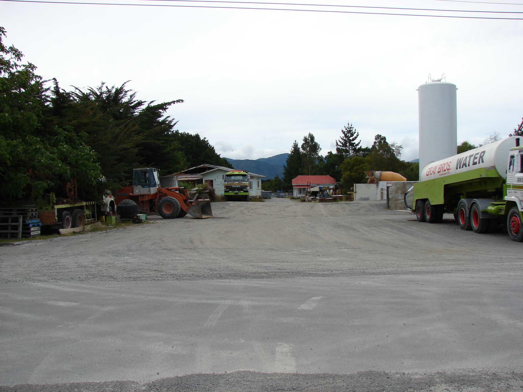 Greytown railway station yard. Photographed by Matthew25187 on en:2006-12-26.